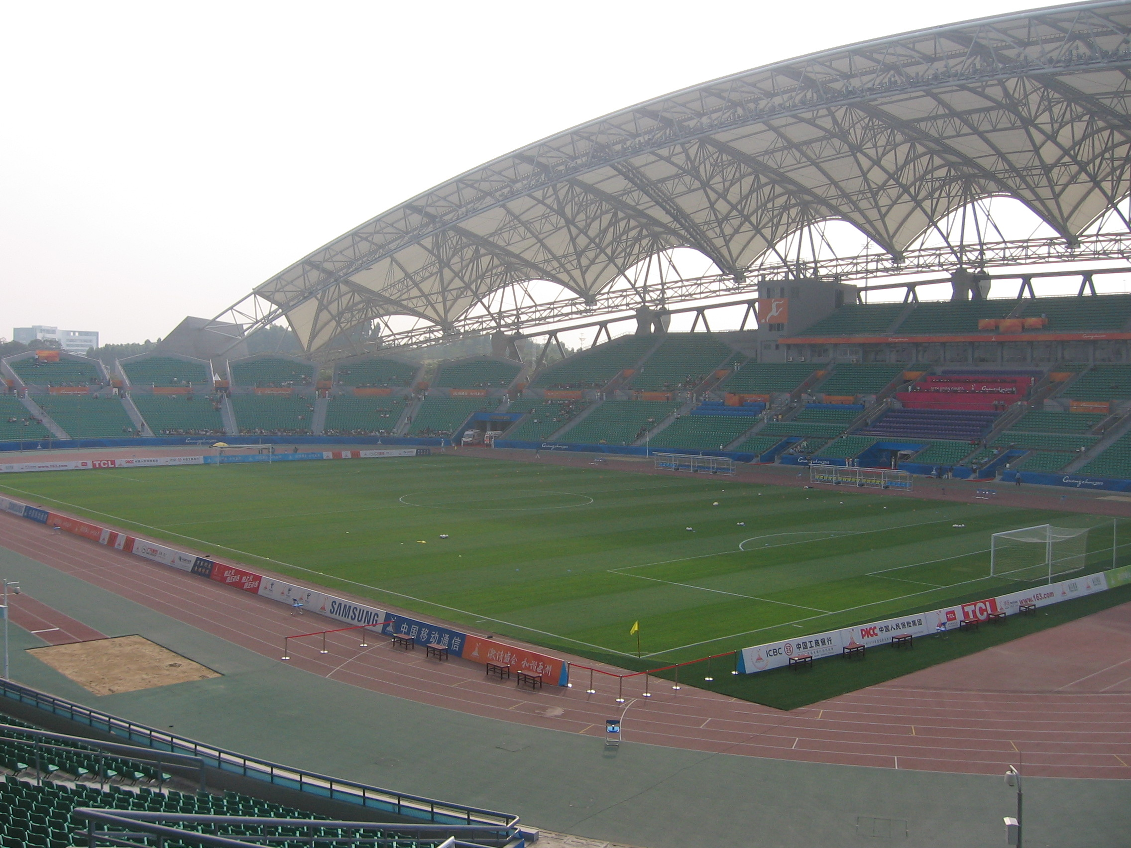 Guangzhou Higher Education Mega Center Central Stadium during 2010 Asian Games.